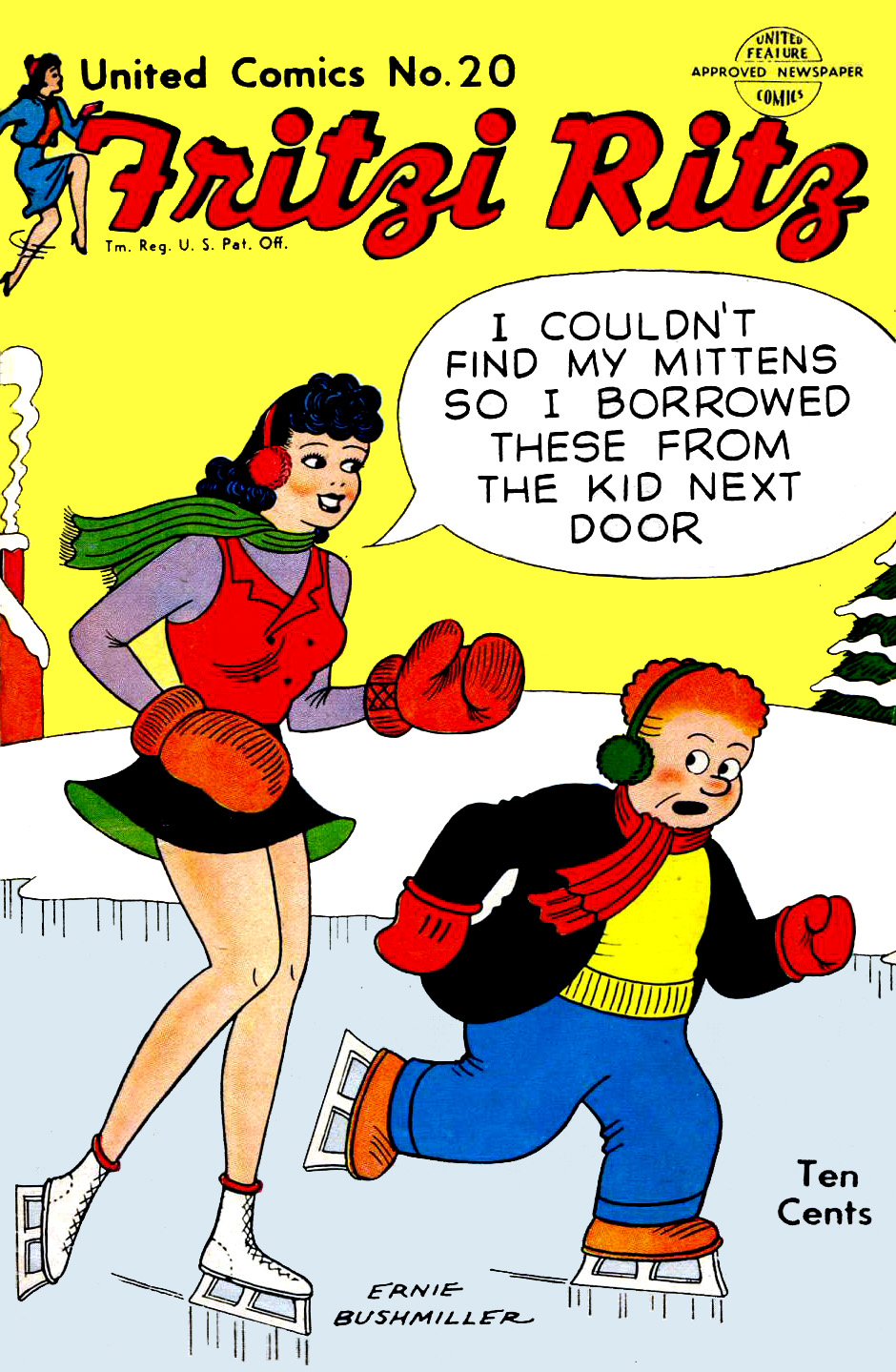 Fritzi and Phil on the cover of United Comics number 20 (January 1952). Artwork by Ernie Bushmiller, published by United Features. Image is assumed to be in the public domain due to lapsed copyright.